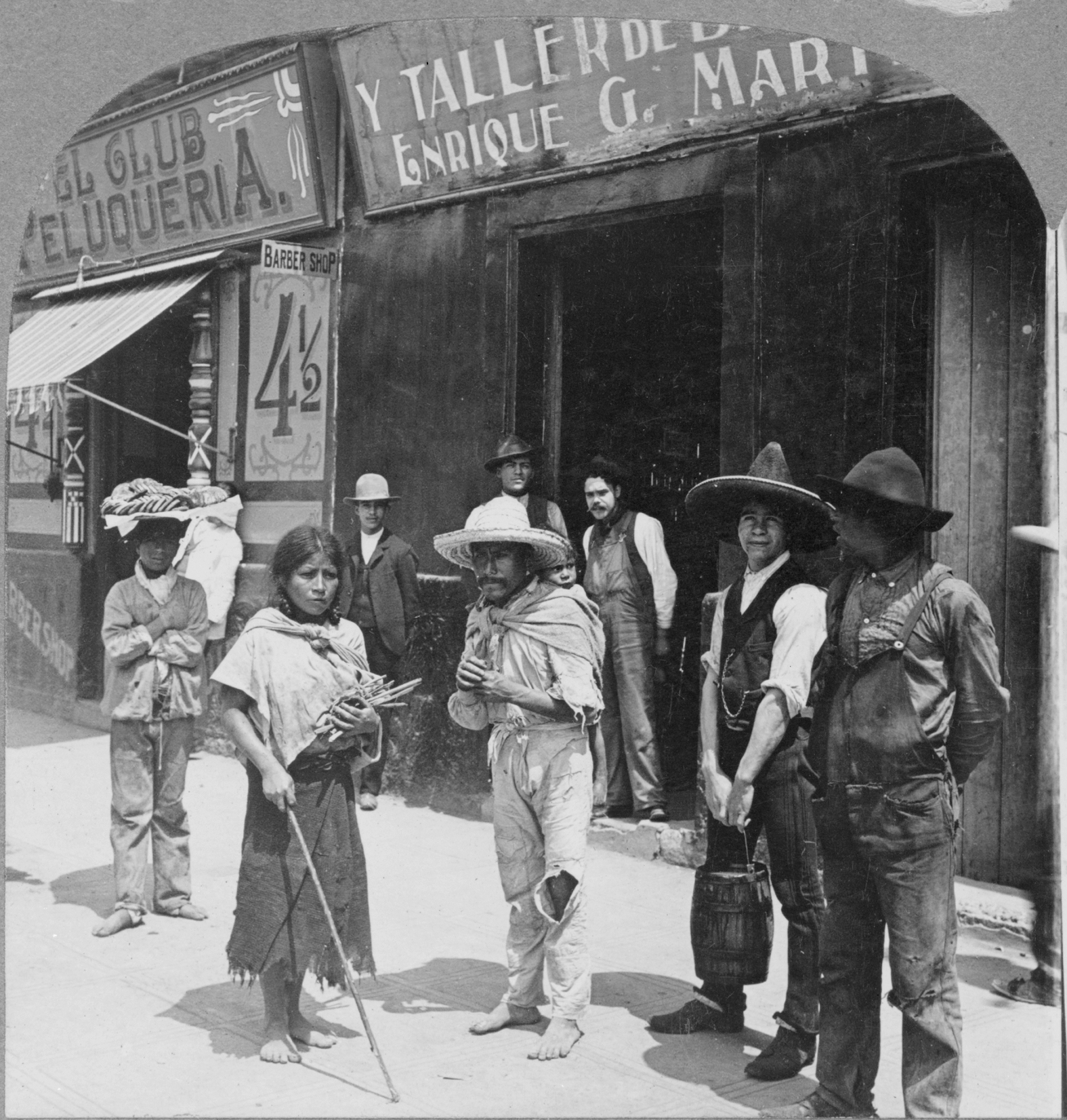 Peon family seeing the city of Mexico